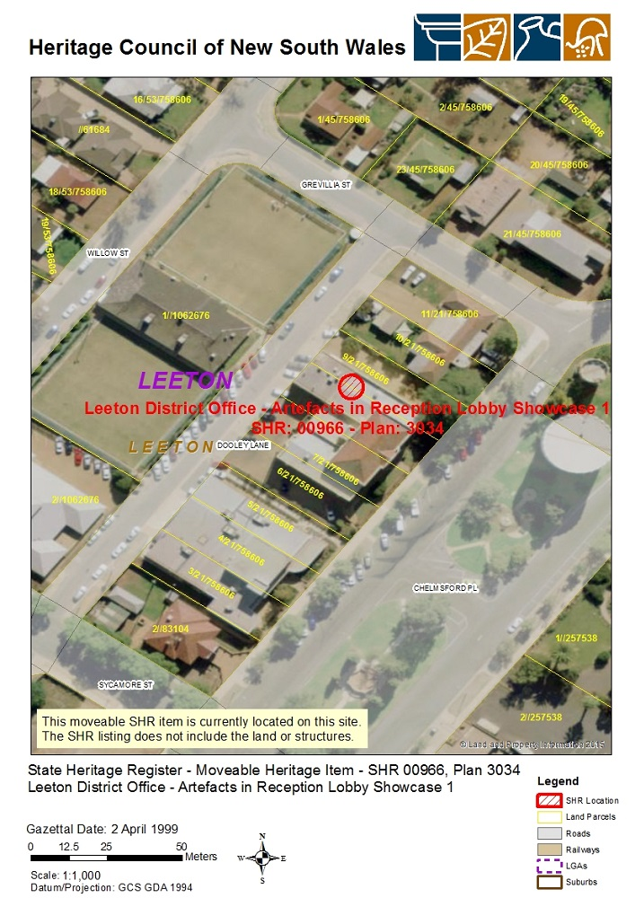 Leeton District Office artefacts: SHR Plan No 3034